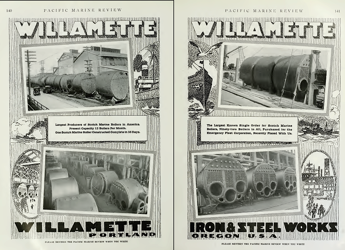 Willamette Iron and Steel Works Scotch Boiler Ad 1918.